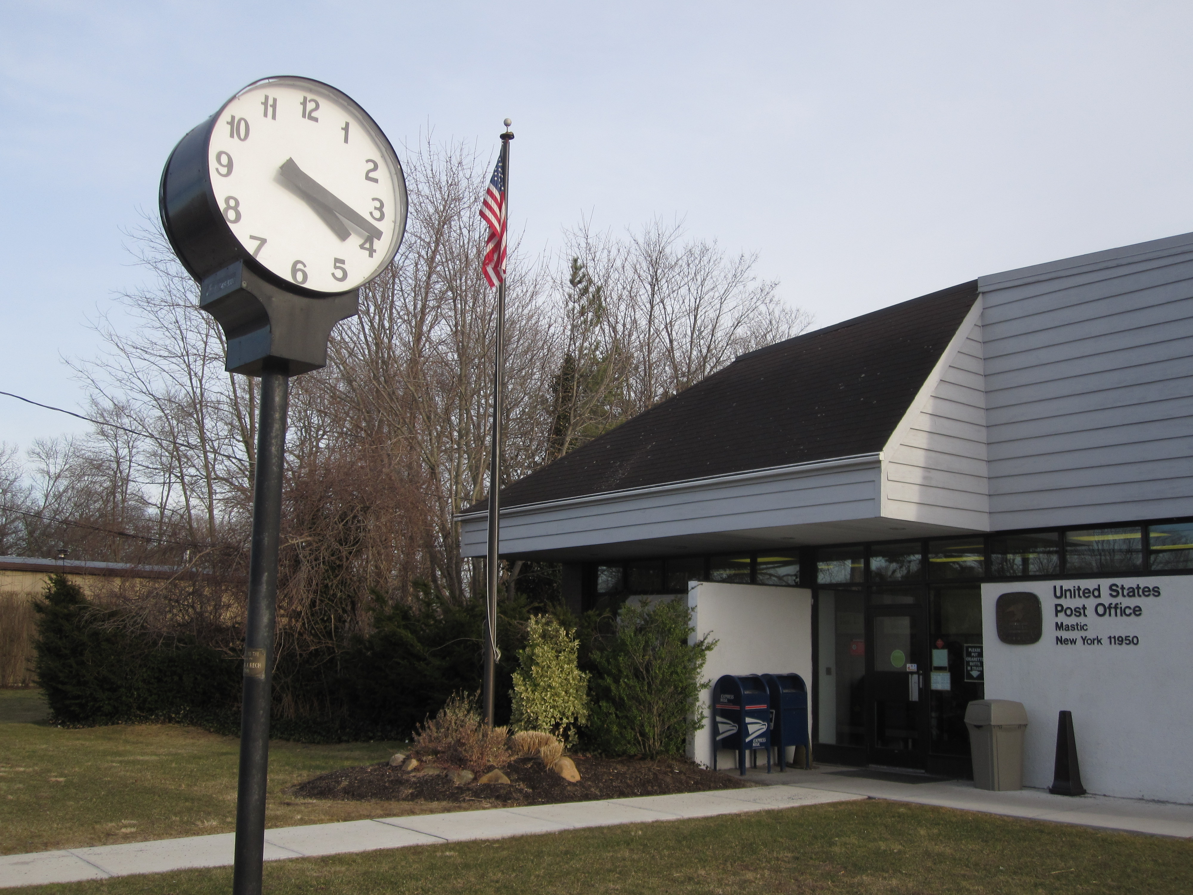 Mastic, New York Clock on Montauk Hwy Suffolk County NY Photo by...Steve Van